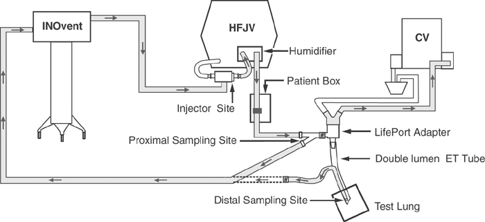 INOvent, HFJV and CV setup diagram. Shaded lines trace the NO path.